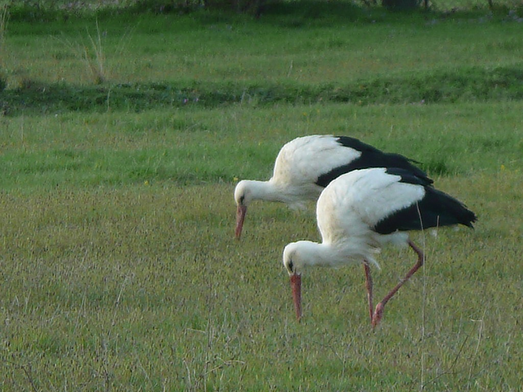 Ciconia ciconia, White stork, Location Sırapınar, Istanbul , Turkey